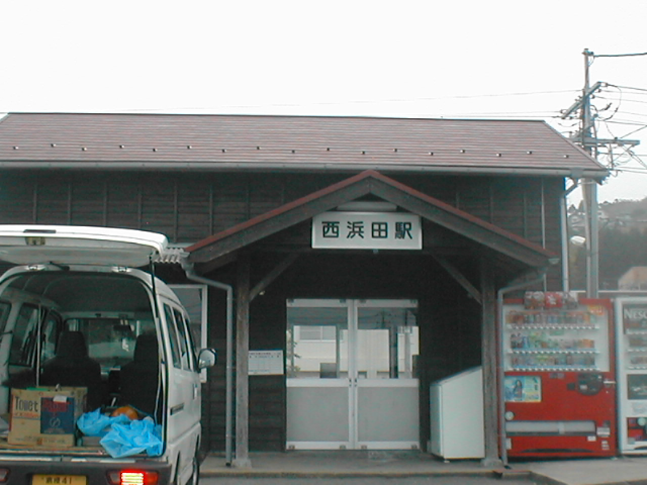 Nisihamada Station